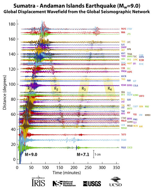 Sumatra waveform large Richard Aster (New Mexico Tech) created this figure for free distribution using the open resources of the IRIS/USGS Global Seismographic Network along with colleagues at the IRIS Consortium